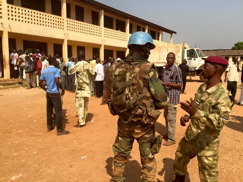 PK5 district of Bangui, strong presence of the MINUSCA after exchanges of fire with a group of armed men that tried to disturb the referendum on 13 December 2015. (VOA Afrique/Tatiana Mossot)